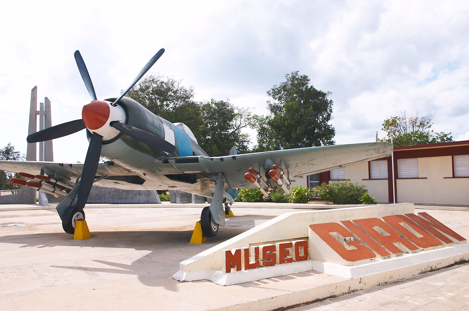 A Cuban Hawker Sea Fury FB.11 fighter ("FAR 543") at the Playa Giron Museum at Matanzas, Cuba. It wears a colour scheme, not related to the original scheme used during the service years in 1958/59-1961.